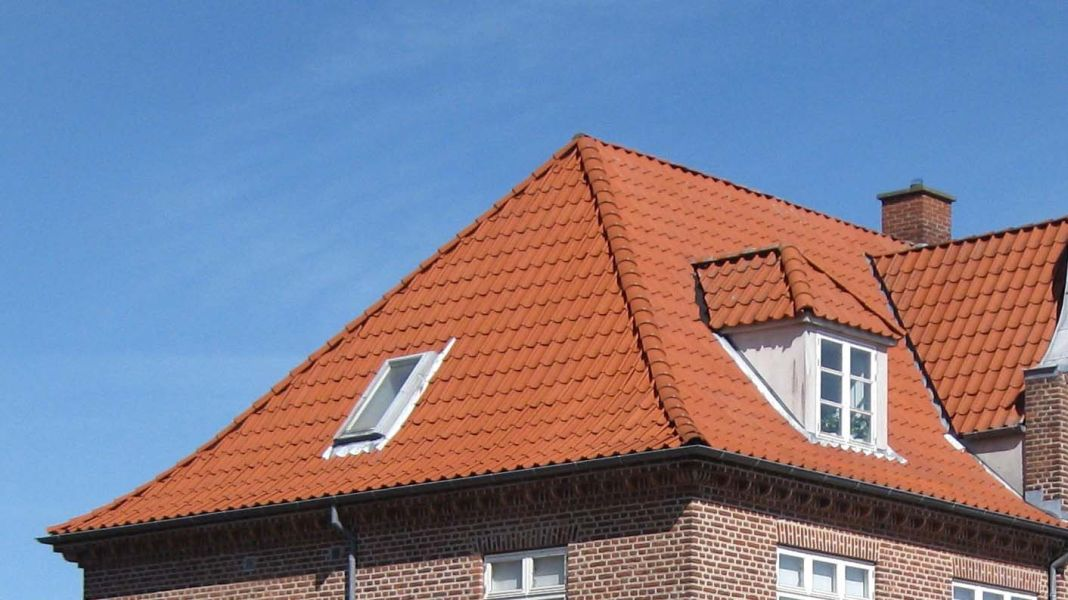 Sloped window and dormer window on a building in Hjallerup, Denmark.